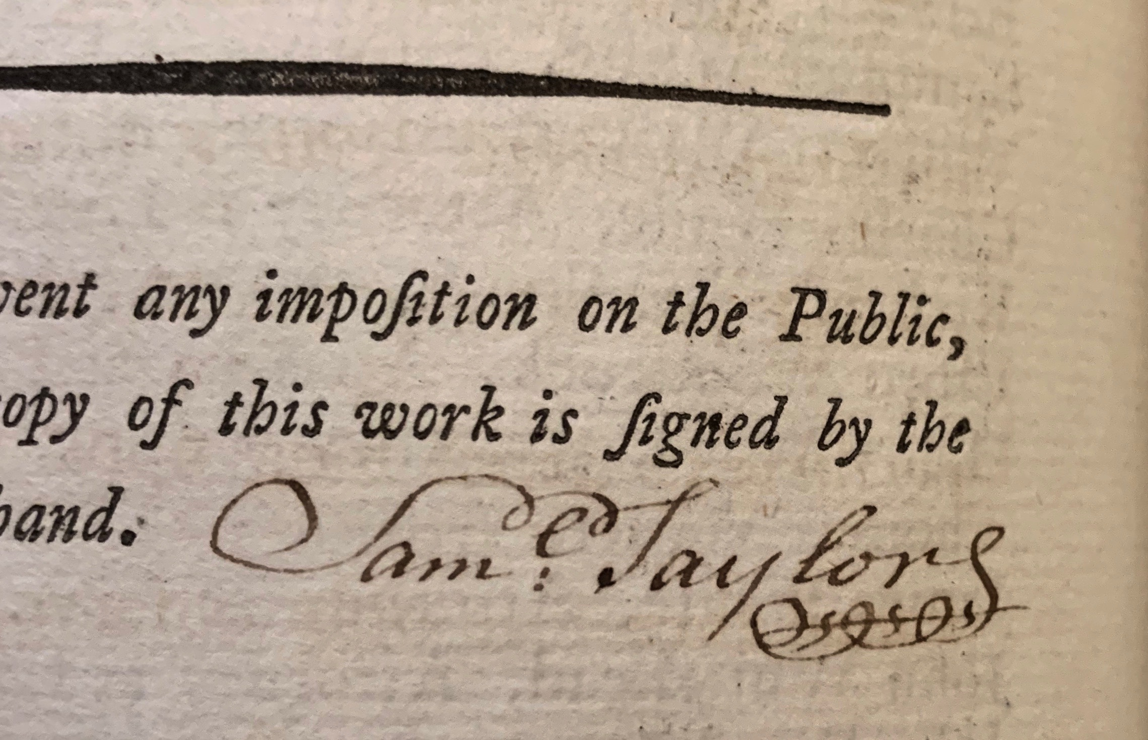 The first edition of Taylor's "Essay Intended to Establish a Standard for an Universal System of Stenography, or Short Hand Writing..." (1786) was signed by the author at the end of the list of subscribers. This is a photograph of that signature.